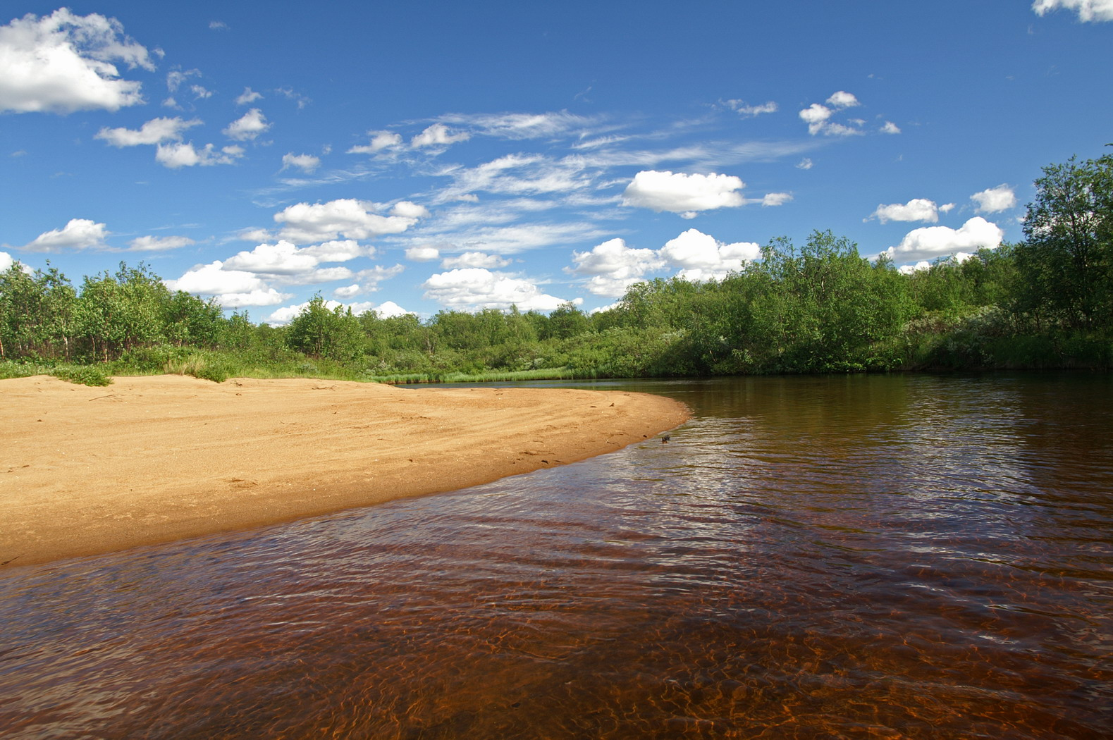 Rova meandering